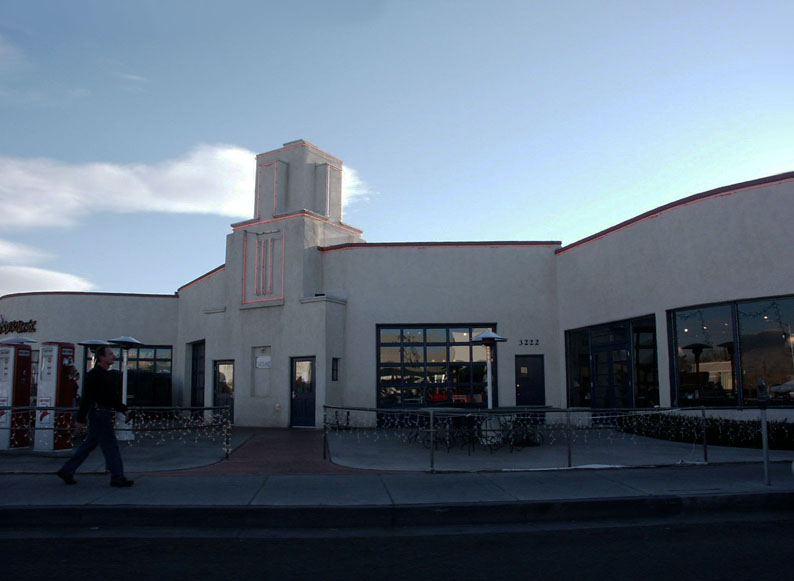 Jones Motor Co. in Albuquerque, New Mexico, USA, built in 1939. Photo by User:camerafiend.